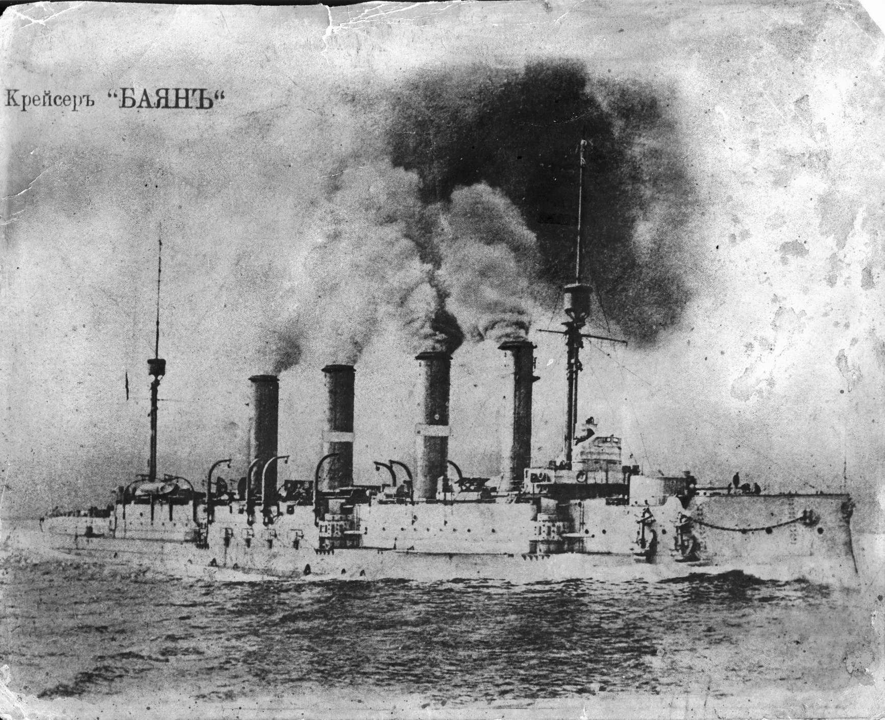 Imperial Russian armoured cruiser Bayan, 1913.